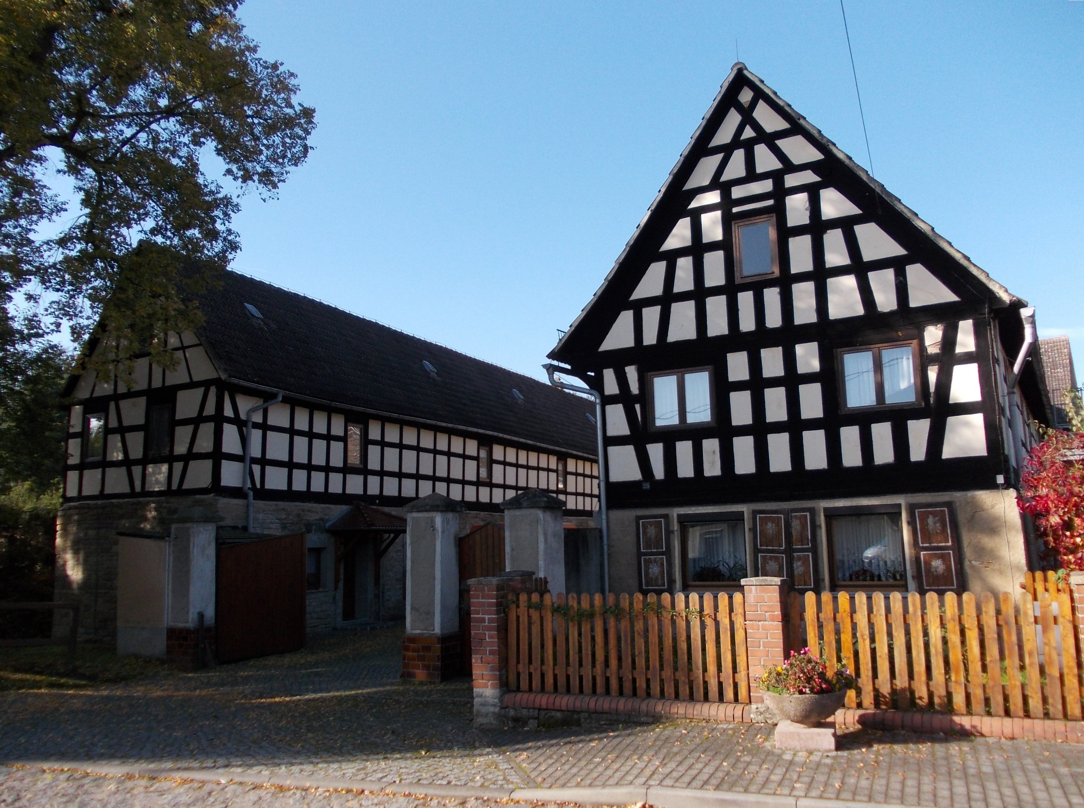 Lindenhof, No. 25 of Drossdorfer Strasse in Ossig (Gutenborn, district of Burgenlandkreis, Saxony-Anhalt)